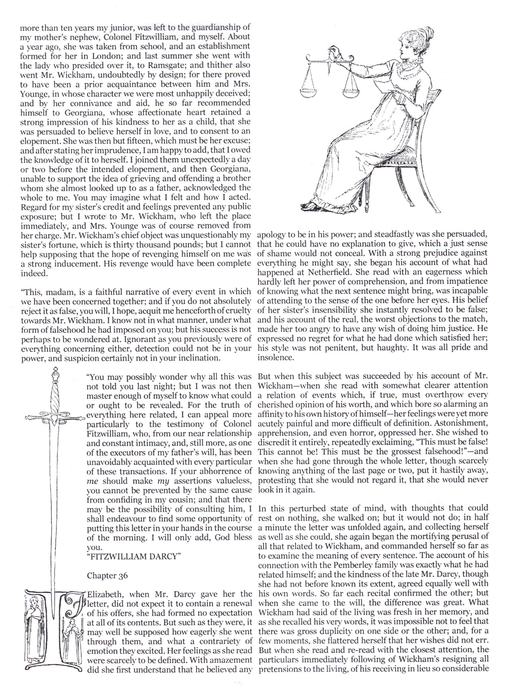 Full page of Pride and Prejudice, ed. 1894 : end of Darcy's letter (ch. 35) and begining of ch. 36 with droped initial "IF" down left and Elizabeth up right